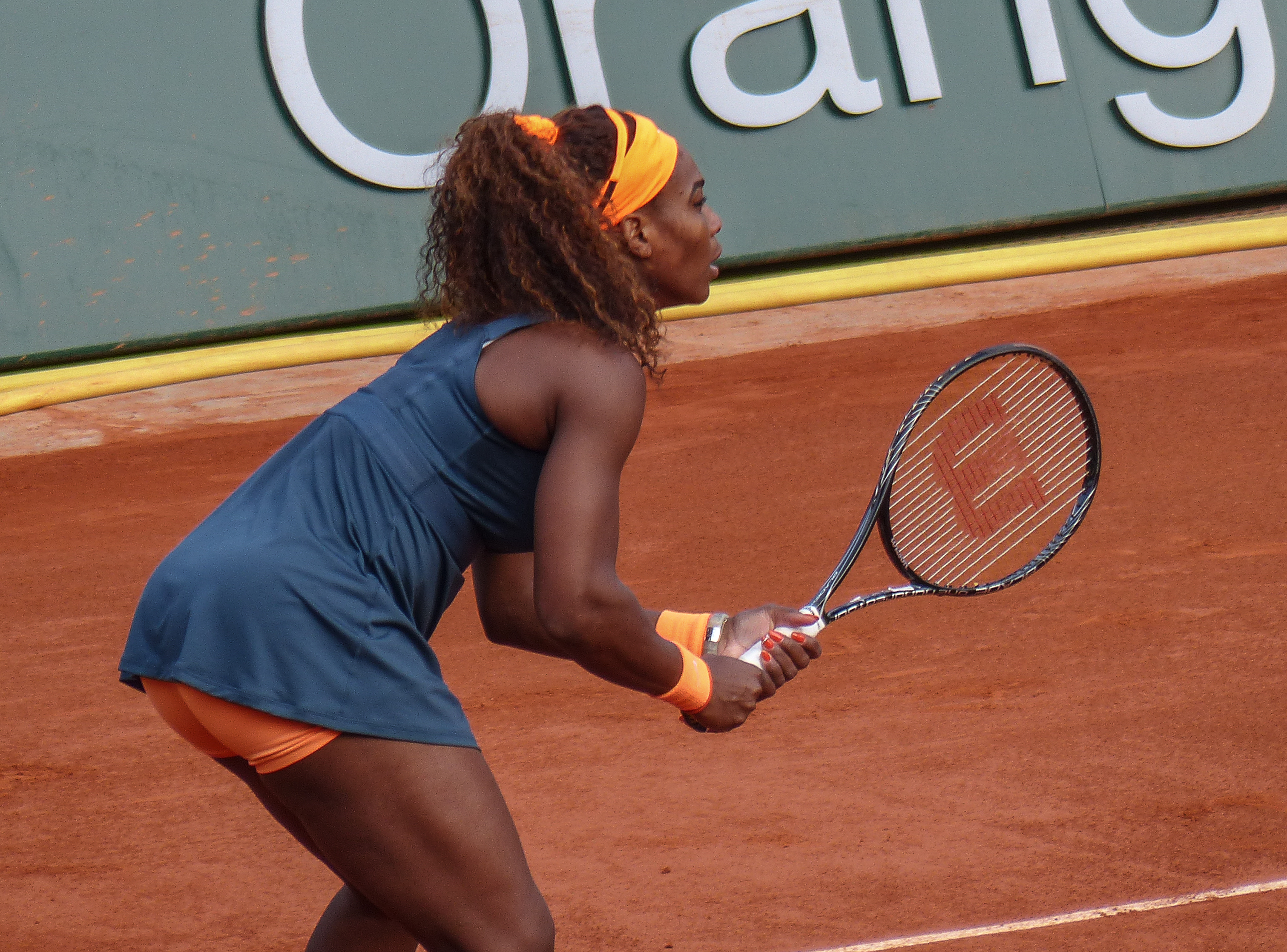 2ème tour Roland Garros 2013 : Serena Williams (USA) def. Caroline Garcia (FRA)